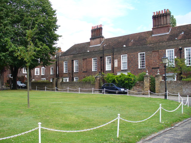 The Wardrobe Extensively reconstructed buildings within the area of the Old Palace, Richmond. The terrace is named because furniture and hangings were stored here. It faces onto a small green.